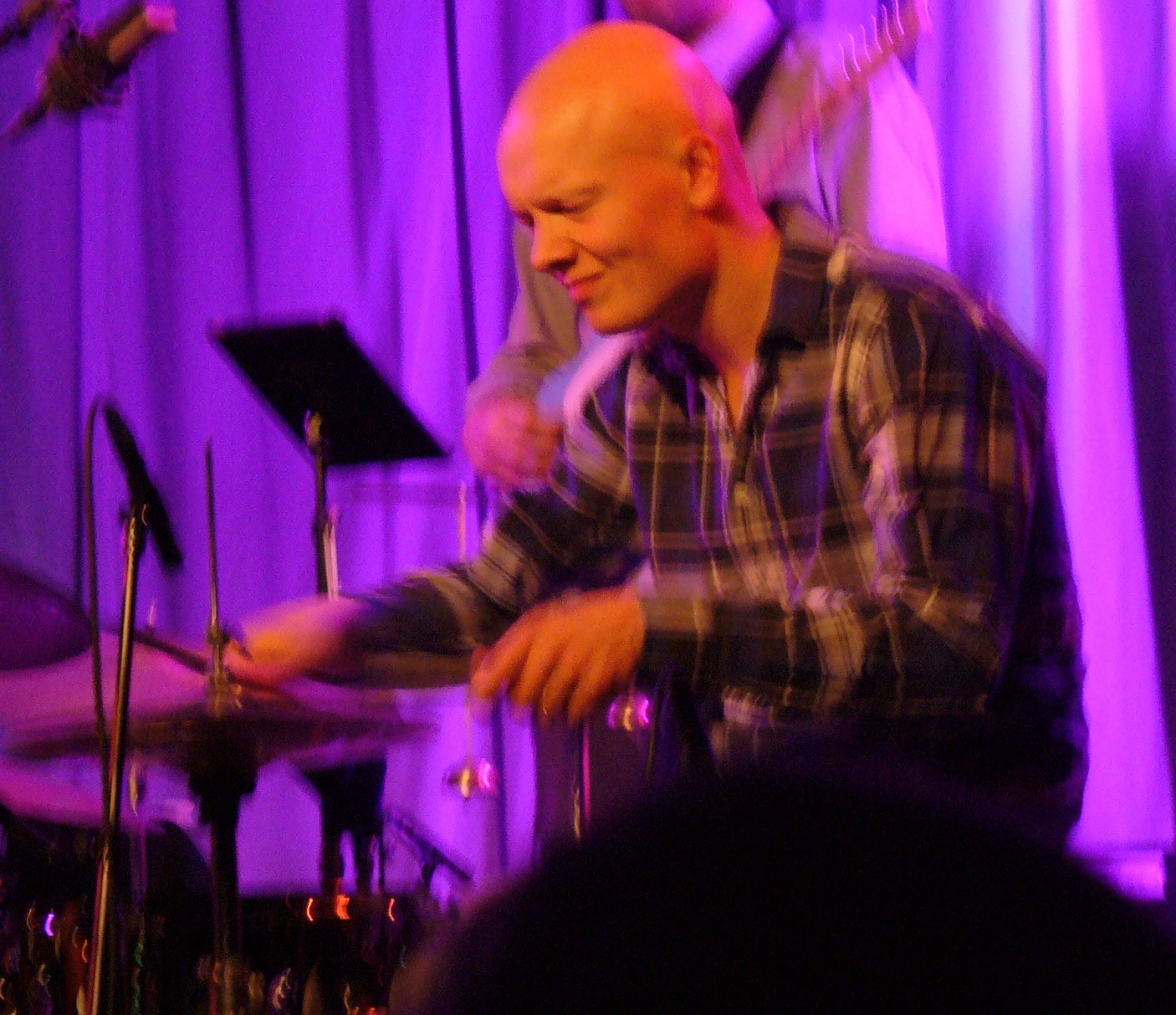 Olavi Louhivuori with Mats Eilertsen's Rubicon at Vossajazz 2014.